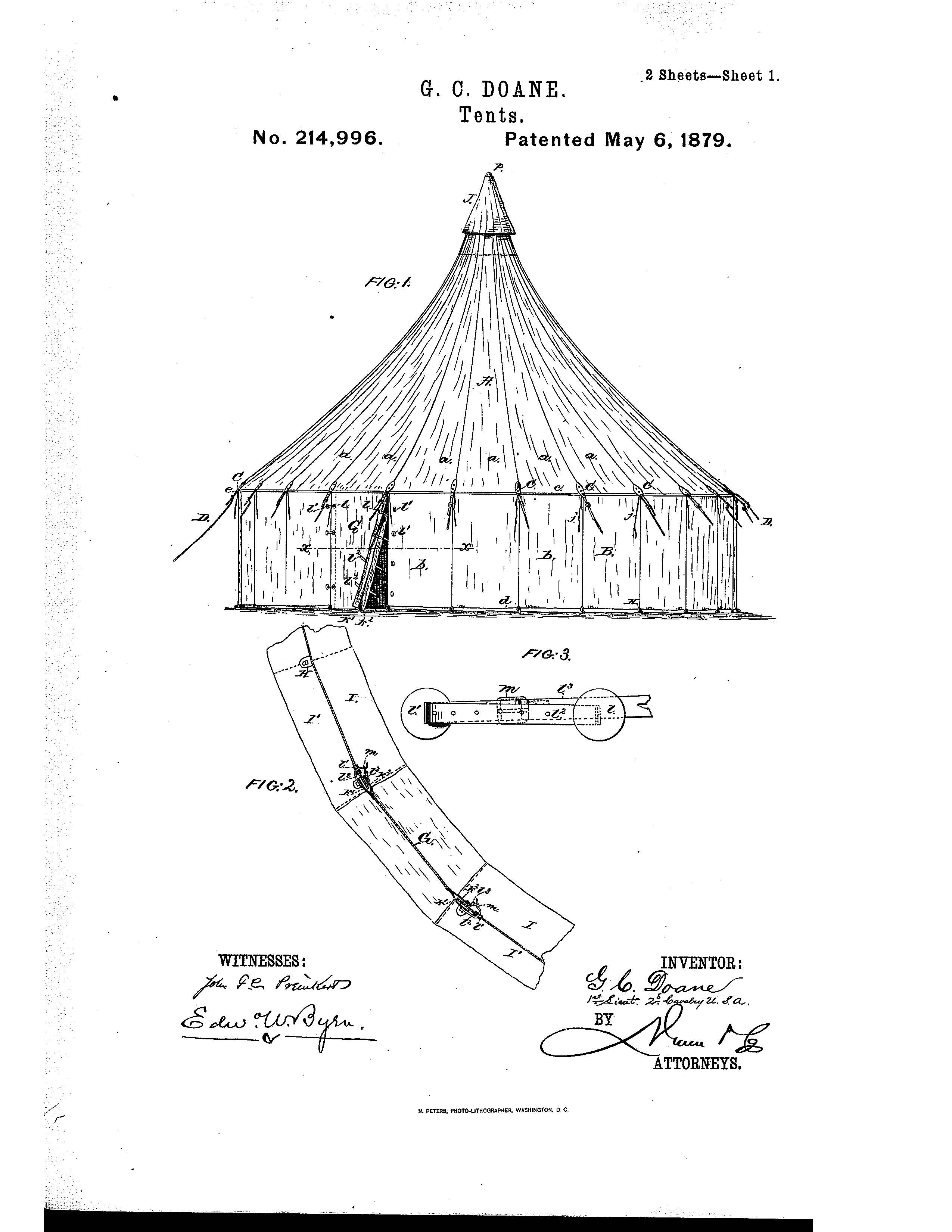 Centennial Tent Patent Image, Gustavus C. Doane, May 6, 1879